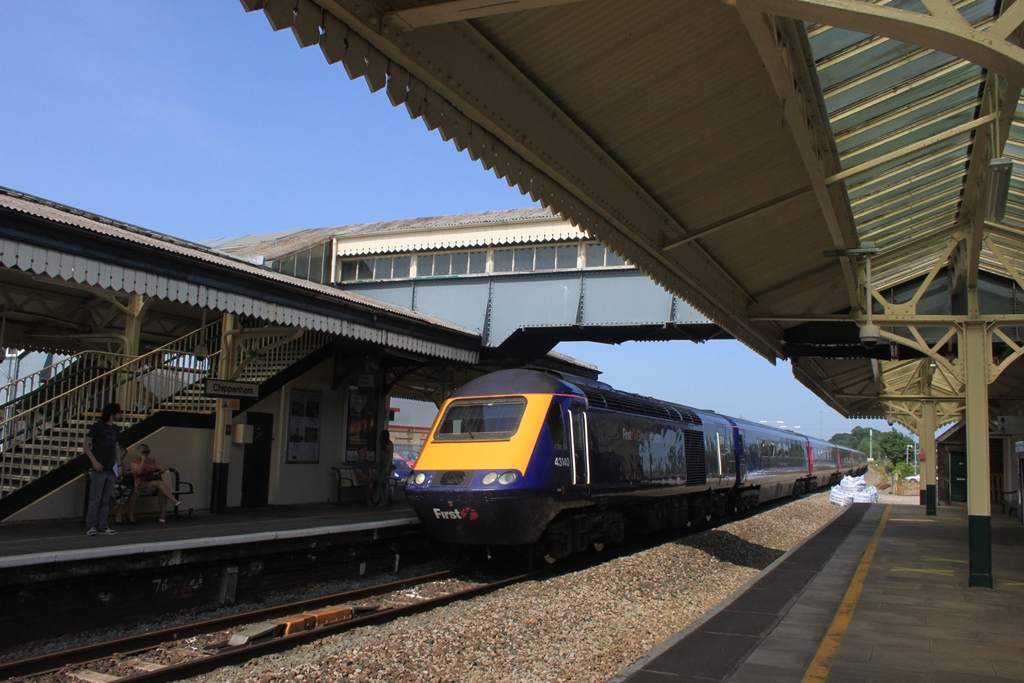 A westbound service from London Paddington to Weston-super-Mare arrives at Chippenham behind First Great Western power car 43140.